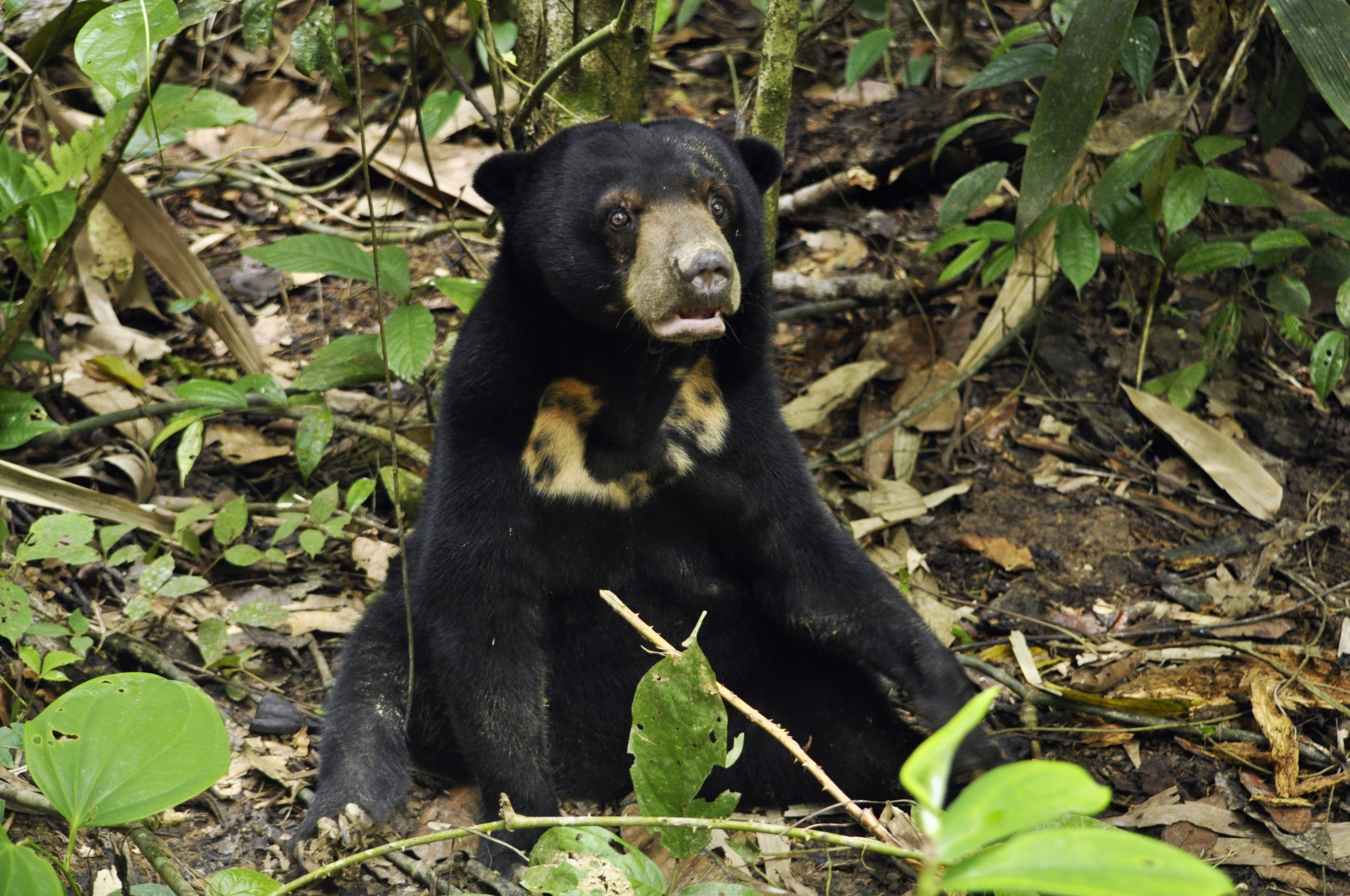 Sepilok, Sabah: Bornean Sun Bear Conservation Centre